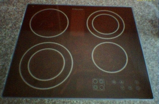 A glass-ceramic cooktop. Model of en:2004. Image taken by Lupo. Published here under the terms of the GFDL. The burners are electric resistor coils (all four).